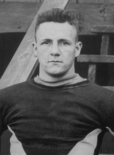 Photograph of Everett Strupper